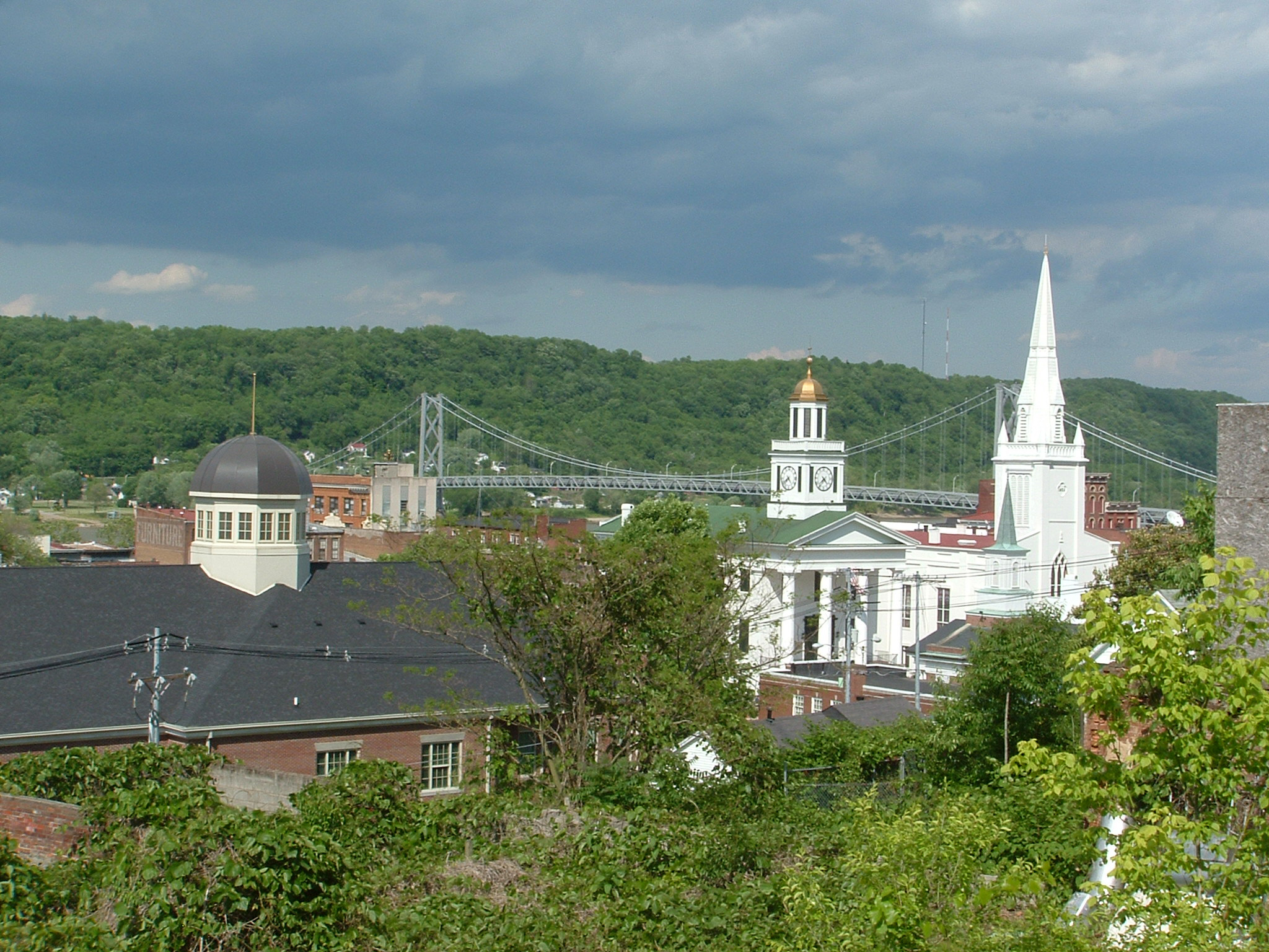 The Skyline of Maysville in 2007.